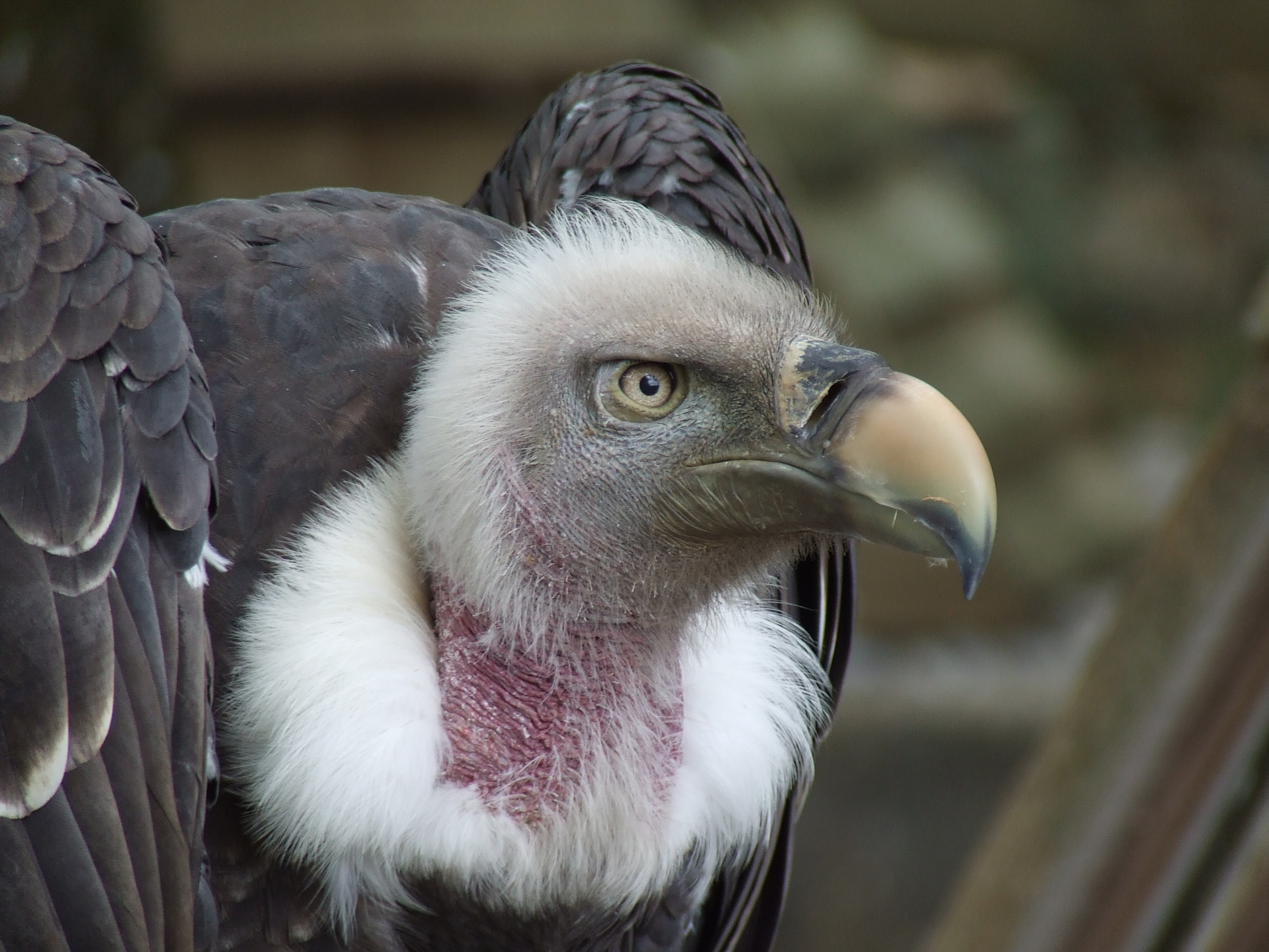 Rüppell's Vulture head, at the "Rochers des Aigles", in Rocamadour, France